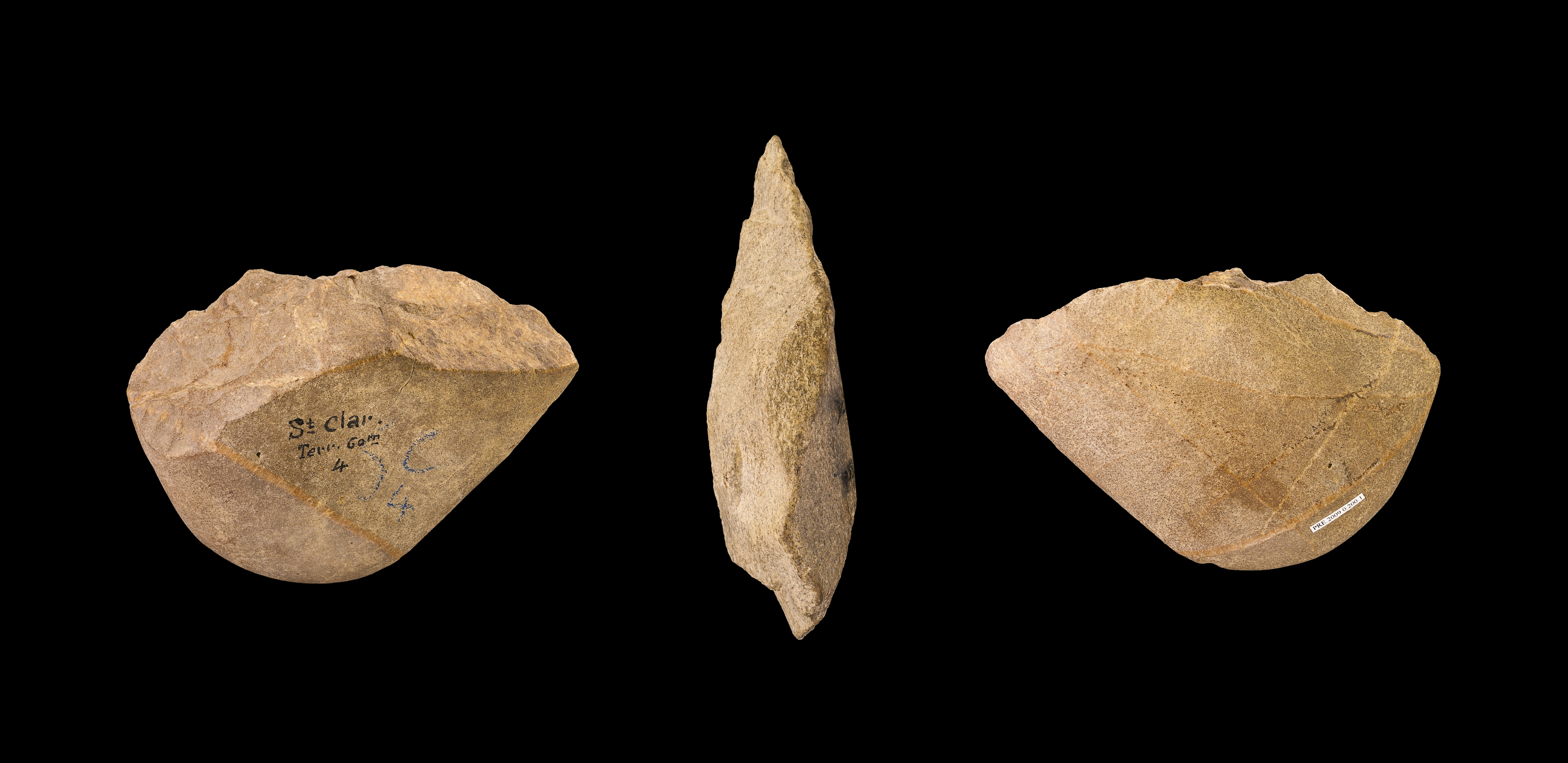 Chopper - Different views of the same specimen Locality : Terrasse 60m, Saint-Clar-de-Rivière, Haute Garonne, France. Former collection of Henri Breuil Stage: Lower Paleolithic between - 1 Ma and - 300 000 BP Technique :pebblemedium QS:P186,Q14673 Dimension : 11.7 × 9 × 4.5 cm (4.6 × 3.5 × 1.7 in)